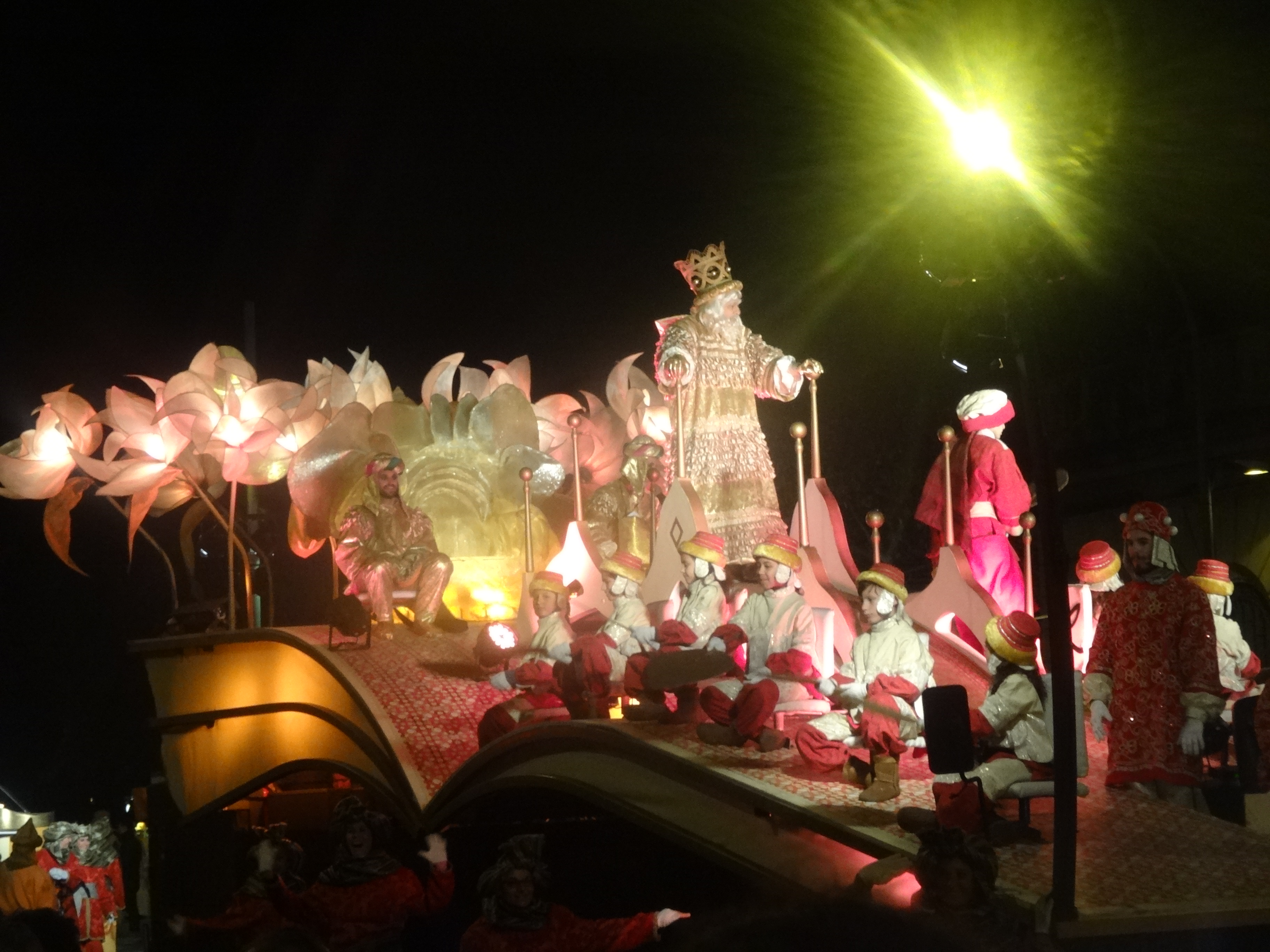 Cavalcade of Magi in Barcelona. January 5th, 2016